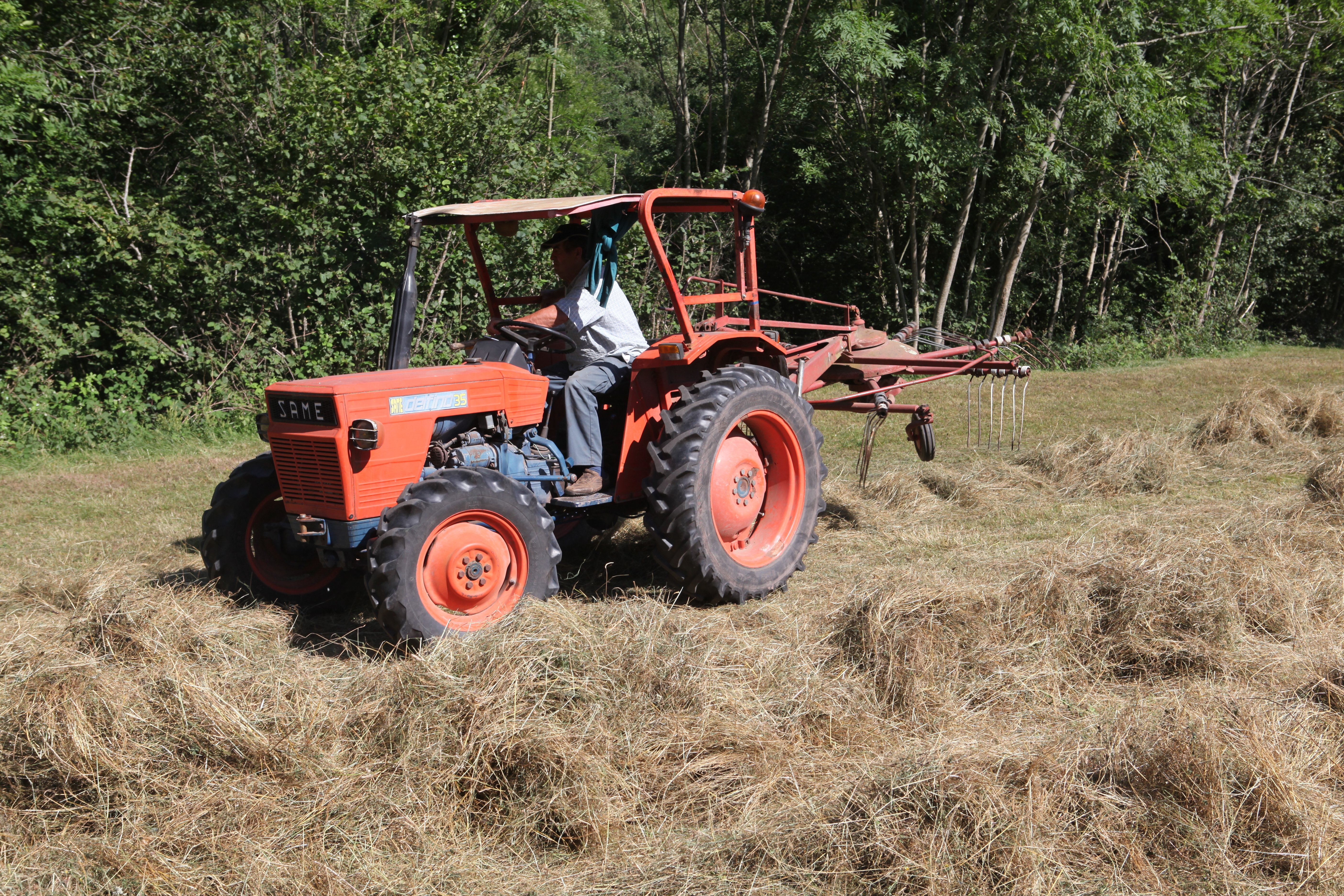 A SAME Delfino 35 tractor (produced ca. 1972 to 1995?) with a rotary hay rake